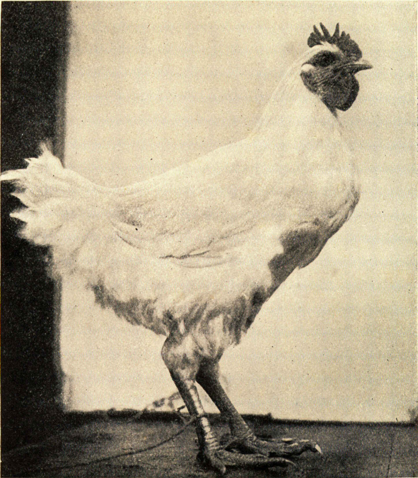 "White fowl, lacking counter-shading, against a flat white cloth. To show that a monochrome object can not be 'obliterated', no matter what its background. Photographed from life." Figure 7 from Concealing-Coloration in the Animal Kingdom by Gerald H Thayer and Abbott H Thayer, Macmillan,1909.